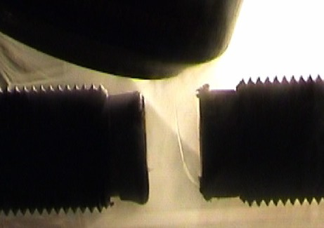 A trickle of condensed oxygen is deflected by strong magnets. Description of the experiment